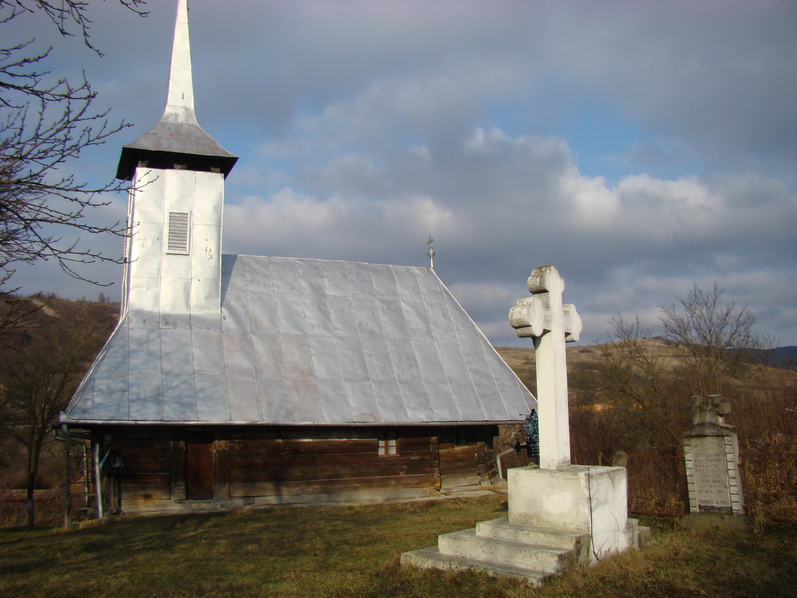 Wooden church in Bârsa, Sălaj